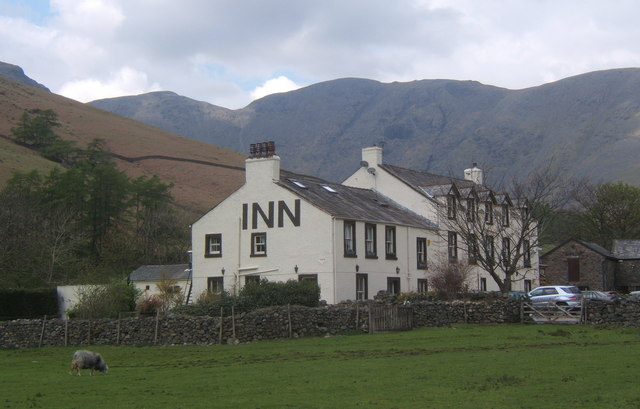 Wasdale Head Inn A famous establishment amongst walkers and climbers. A clergyman was apparently unintentionally present many years ago at the "World's Greatest liar" contest. He expressed dismay at the whole concept, and said that he, of course, had never told a lie.... That year he was declared the winner.